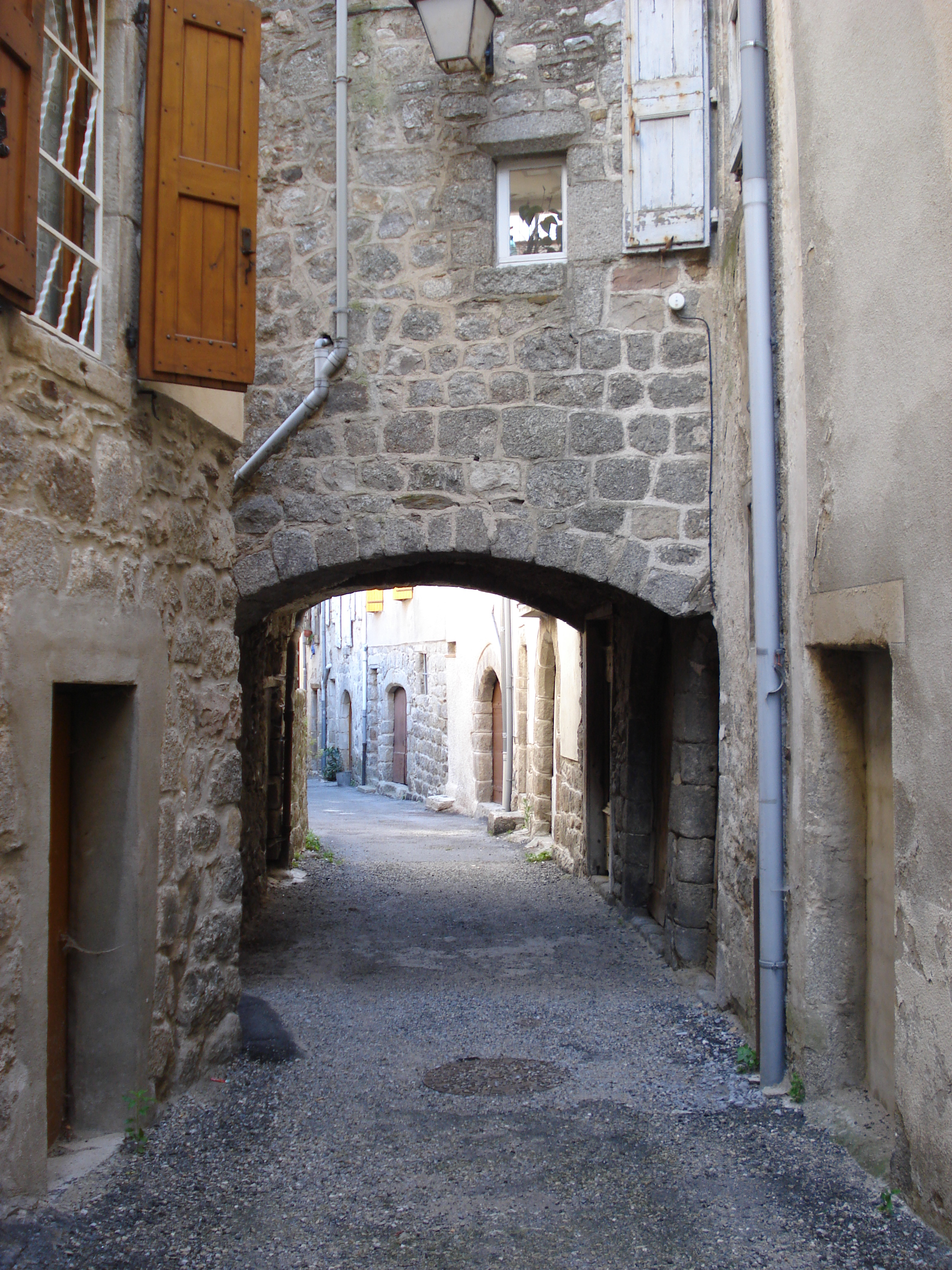 Génolhac (Gard, Fr), small street.